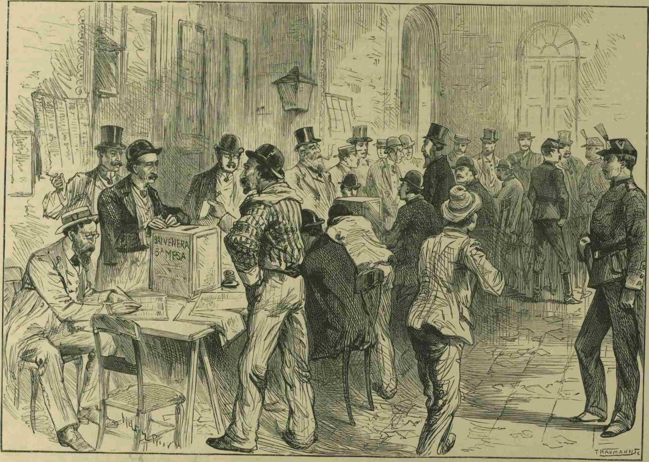 Election Proceedings in Buenos Ayres: Voting under military protection in Buenos Ayres.